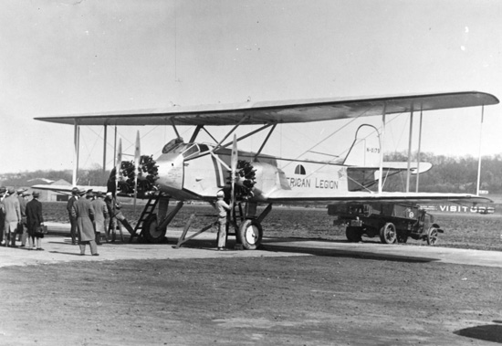 The ill-fated Keystone K-47 Pathfinder "American Legion" awaits an attempt at the Orteig Prize.